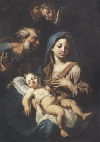 Detail from The Holy Family, by Martino Altomonte. Oil on canvas, 99 x 73.3 cm